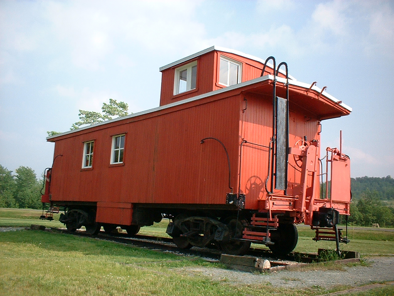 Old wagon